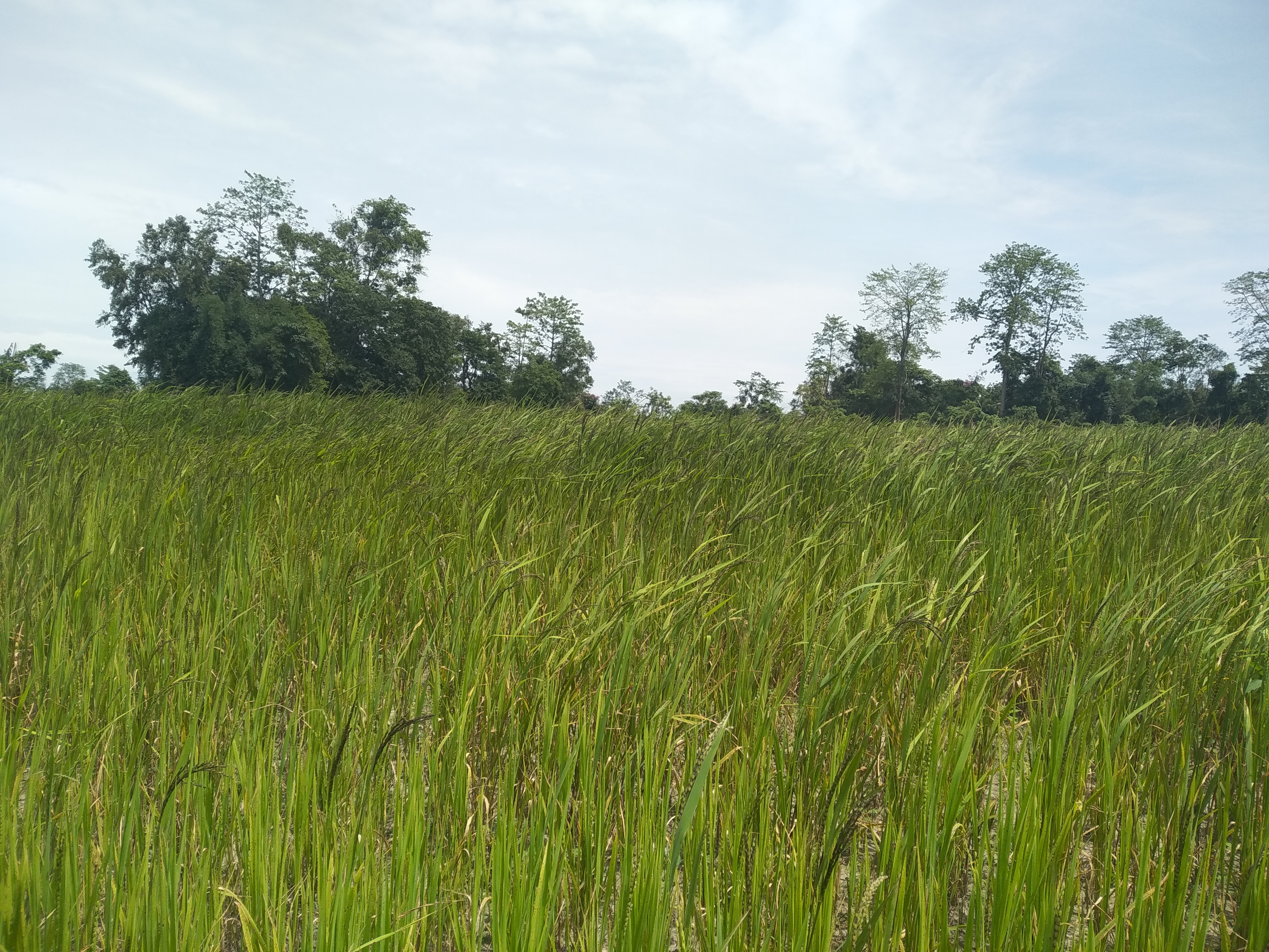 Jengraimukh